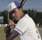 Professional baseball player Francisco Cabrera